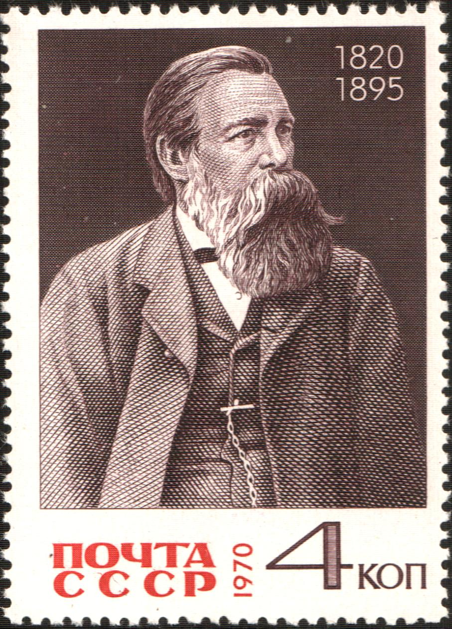 USSR stamp: Friedrich Engels. Series: 150th Birth Anniversary of Friedrich Engels (1820—1895), a German Social Scientist, Author, Political Theorist, Philosopher, and Father of Marxist Theory, together with Karl Marx (Friedrich Engels)